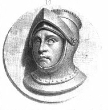 Album du Dauphiné - tome IV, litographe des Dauphins (litography of the Dauphins) : 10. Guigues VI (or Guigues VII, as Guigues VI appears in this collection with his real name André de Bourgogne)